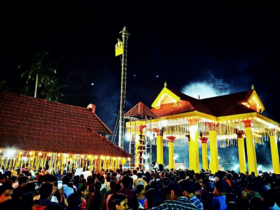 temple at night